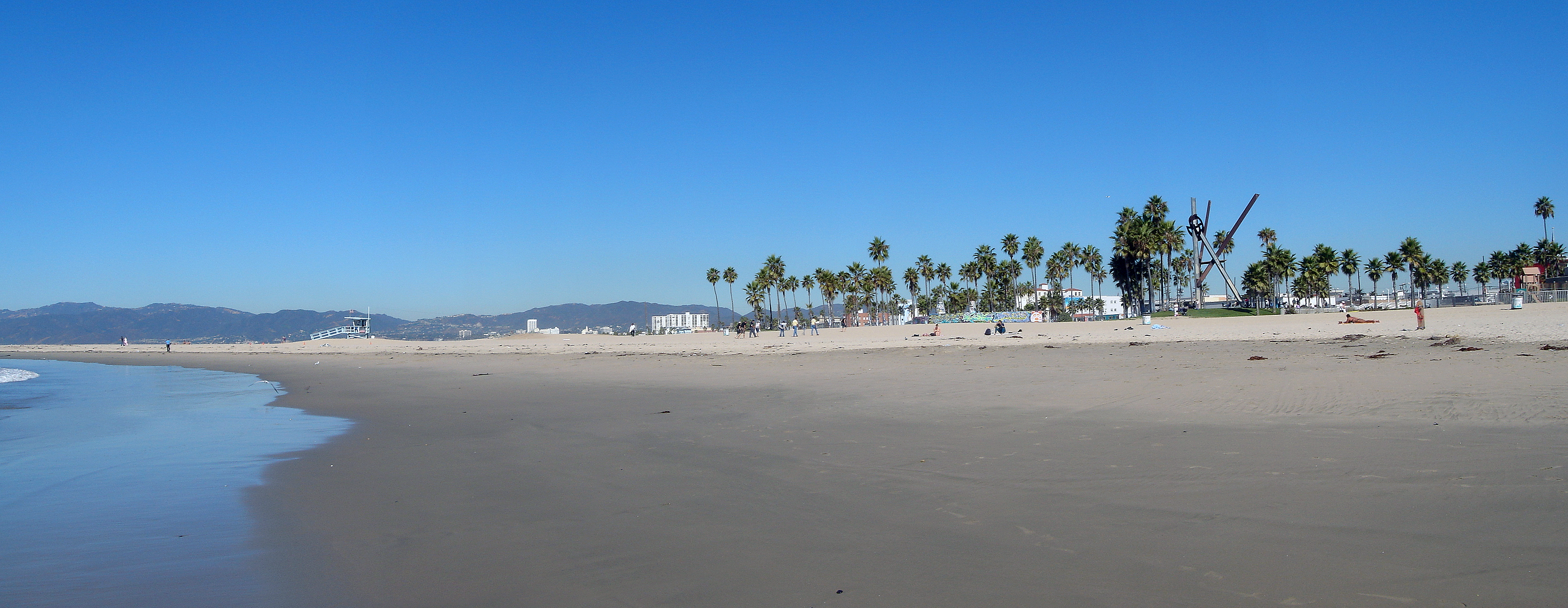 Panorama of Venice Beach from the ocean.